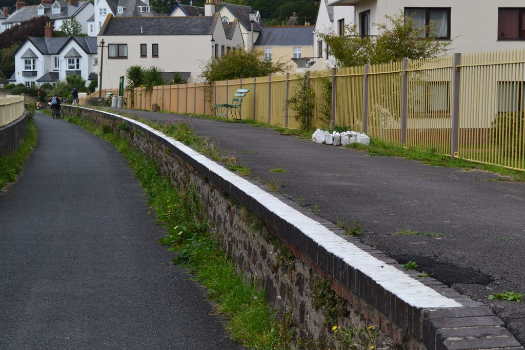 Former railway station platform at Instow